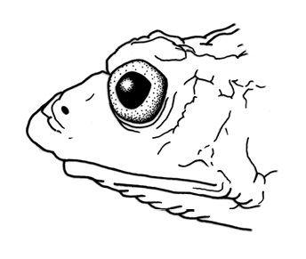 Head shape in lateral view of Osornophryne occidentalis male, QCAZ 43529.